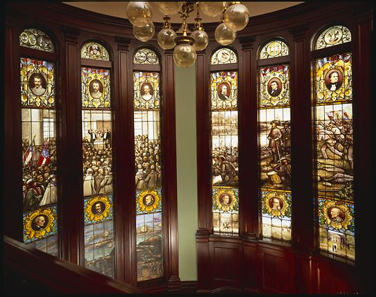 "The Rise and the Fall of the Confederacy," satined glass windows series in Rhodes Hall (photo courtesy of The Georgia Trust for Historic Preservation"